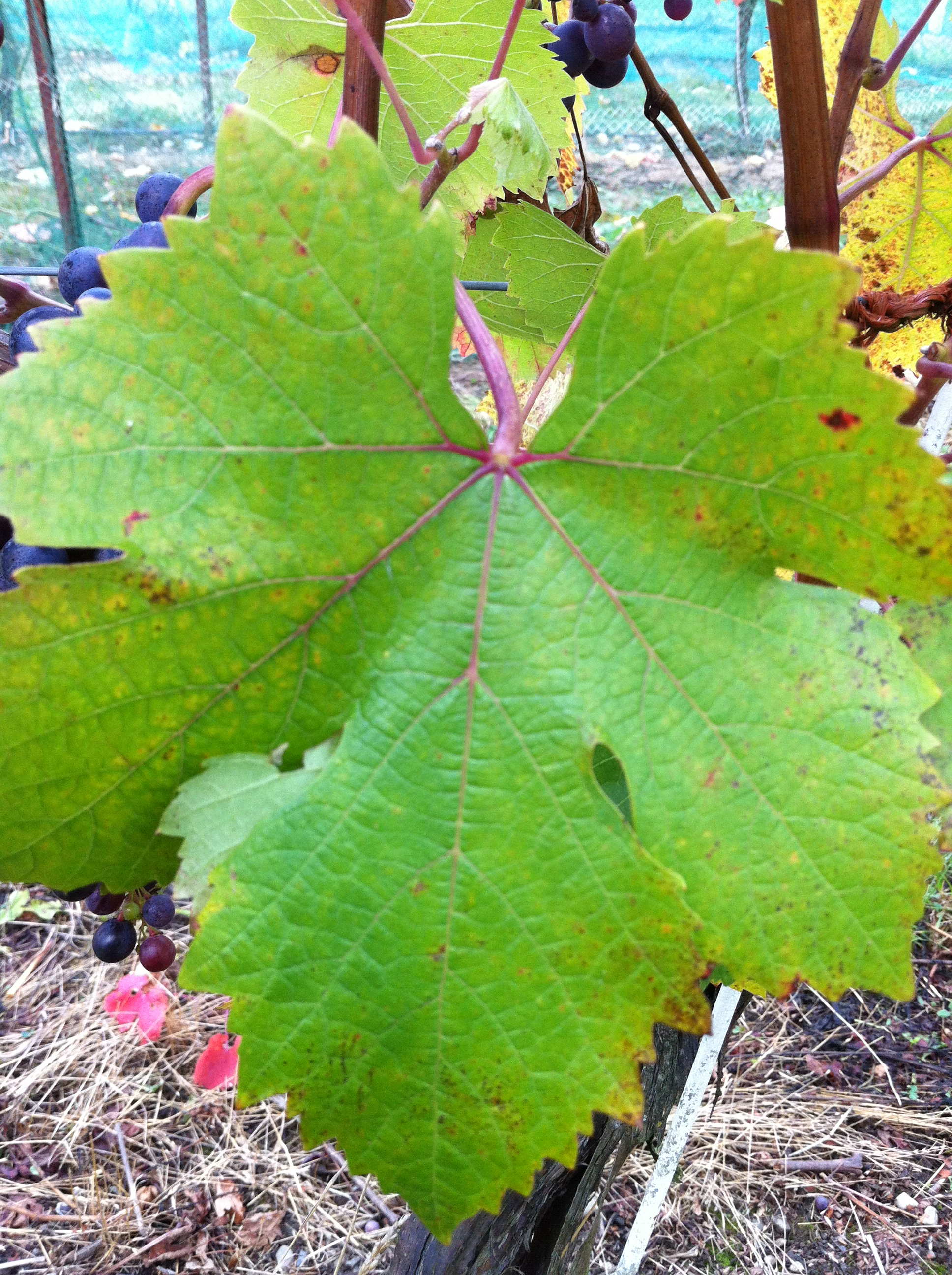 Dolcetto leaf growing in the Puget Sound AVA of Washington